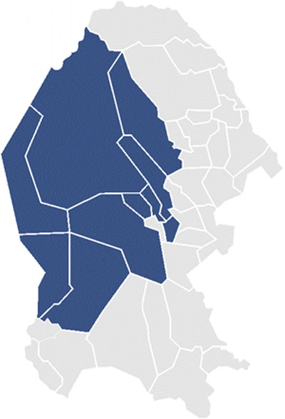 Map of the Second Federal Electoral District of the State of Coahuila, México.